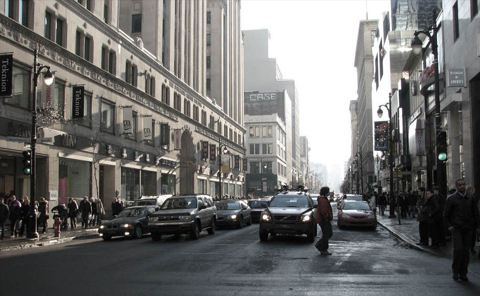 Saint Catherine Street at Fall 2005.